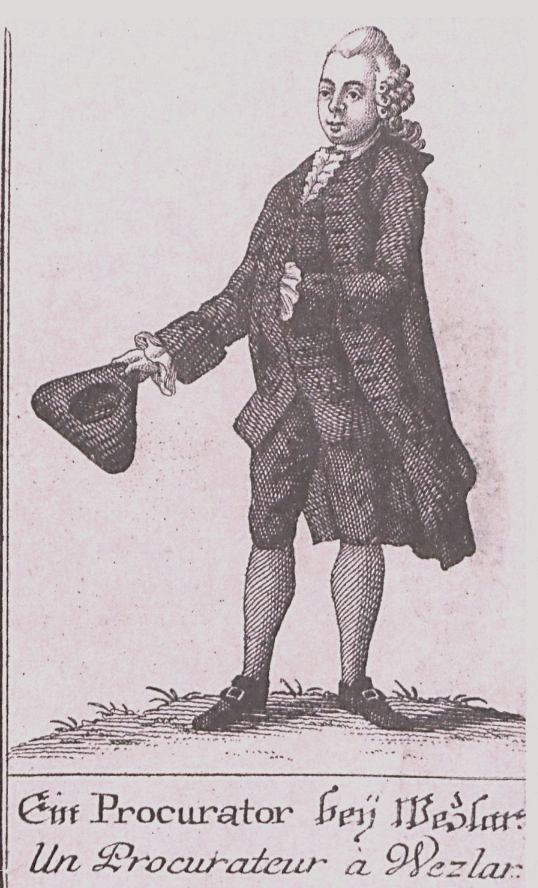 Procurator Wetzlar